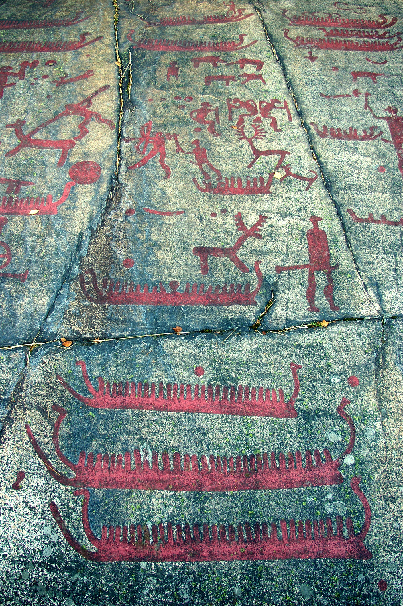 Rock carving area from the bronze age in the parish of Tanum, Bohuslän, a part of Sweden.